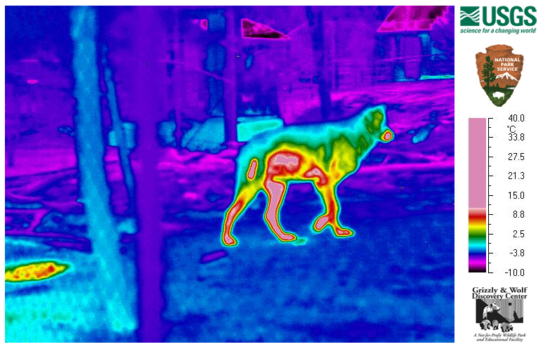 USGS scientists examine thermal imagery of wolves for assessing impacts of sarcoptic mange on the survival, reproduction and social behavior of this species in Yellowstone National Park. Sarcoptic mange, a highly contagious canine skin disease, caused by mites that burrow into the skin causing infections, hair loss, severe irritation and an insatiable desire to scratch. The resulting hair loss and depressed vigor of an infected animal leaves them vulnerable to hypothermia, malnutrition and dehydration, which can eventually lead to death. Note the bright red patch on the wolf's hindquarters in this thermal image of a captive wolf at the Grizzly and Wolf Discovery Center in West Yellowstone. This is where fur was shaved to replicate the loss of fur associated with sarcoptic mange. The fur will eventually grow back. All research animals are handled by following the specific requirements of USGS Animal Care and Use policies. Learn more at bit.ly/usgswolf. This image is in the public domain in the United States because it only contains materials that originally came from the United States Geological Survey, an agency of the United States Department of the Interior. For more information, see the official USGS copyright policy.